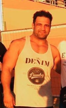 I am the copyright holder of this work, release this work into the public domain. This applies worldwide. In some countries this may not be legally possible; if so: I grant anyone the right to use this work for any purpose, without any conditions, unless such conditions are required by law.